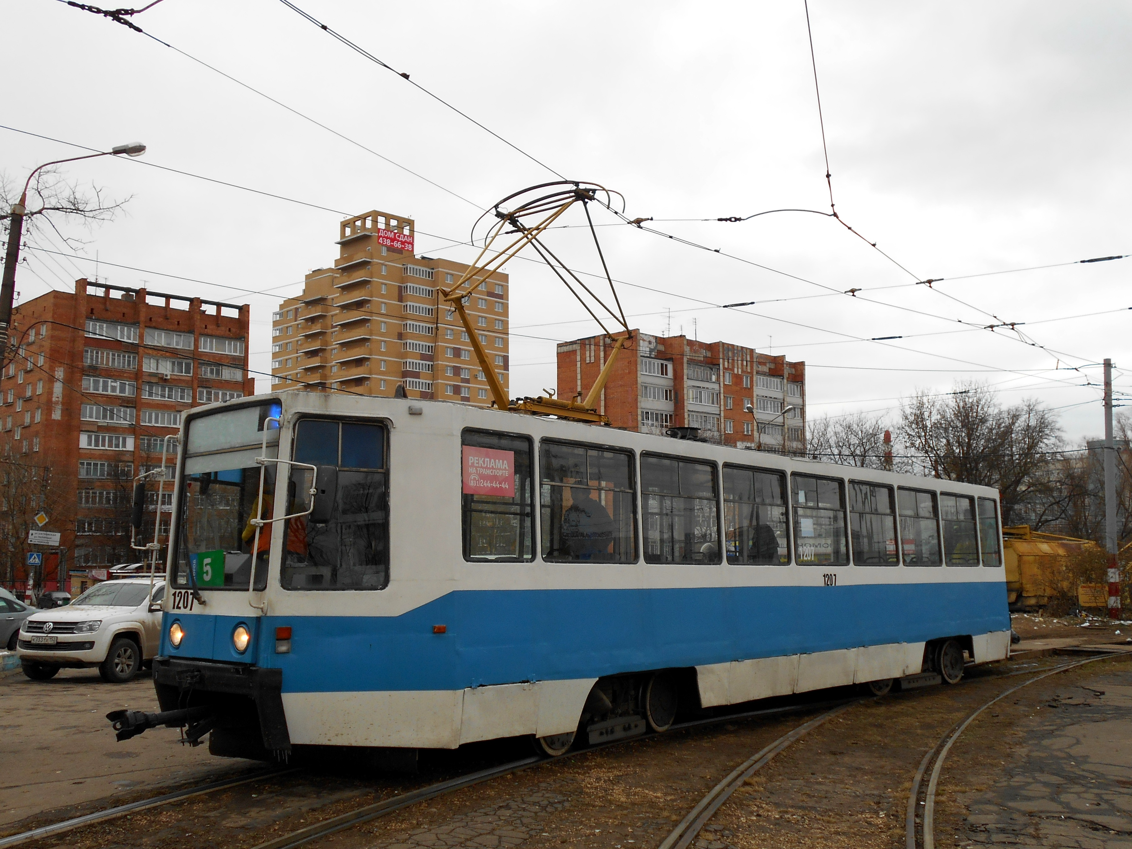 Tram number 1207 in Nizhny Novgorod on line 5 on Myza terminus